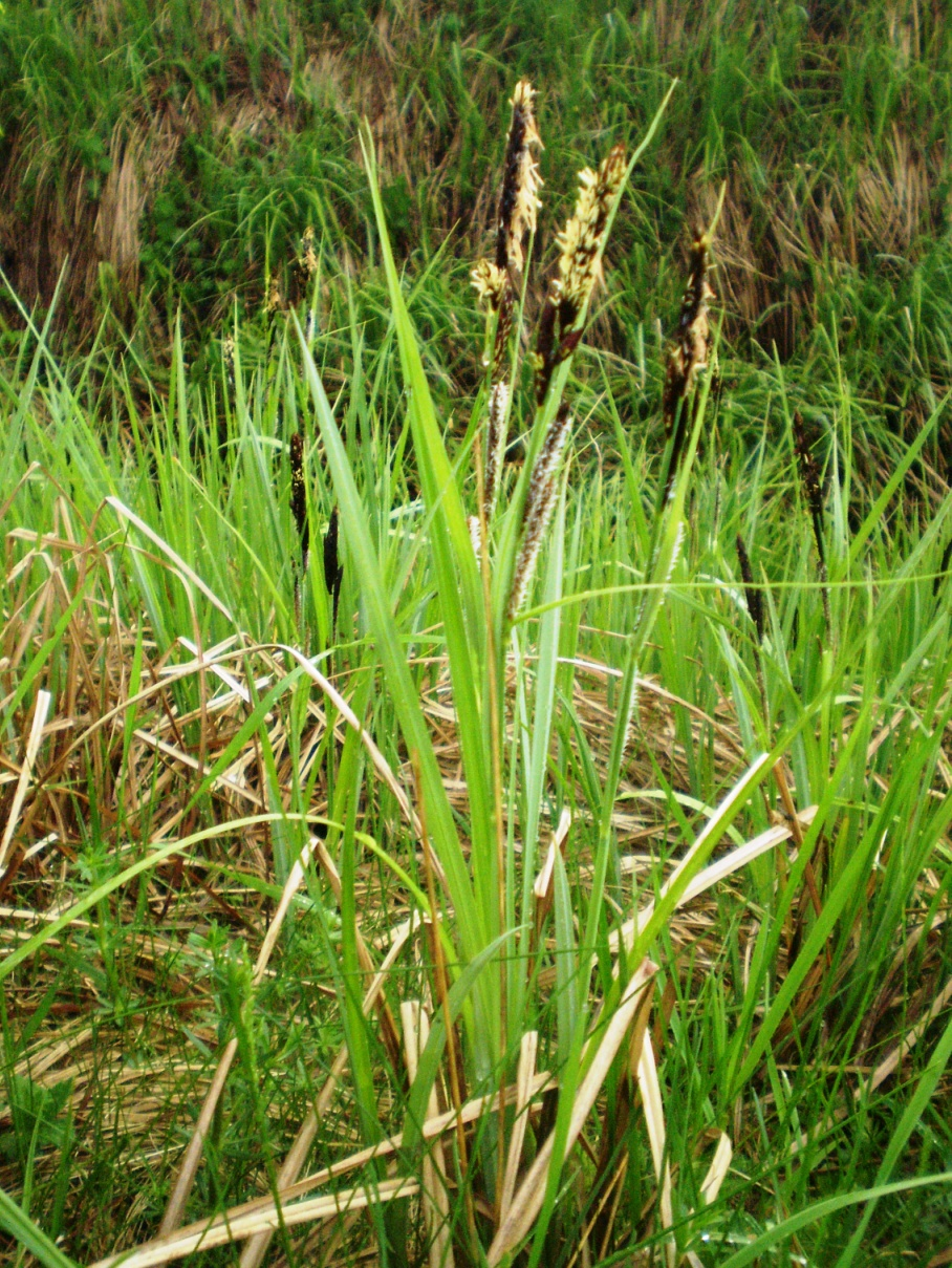 Carex panicea, shore of Klamputis rivulet, Kėdainiai district, Lithuania